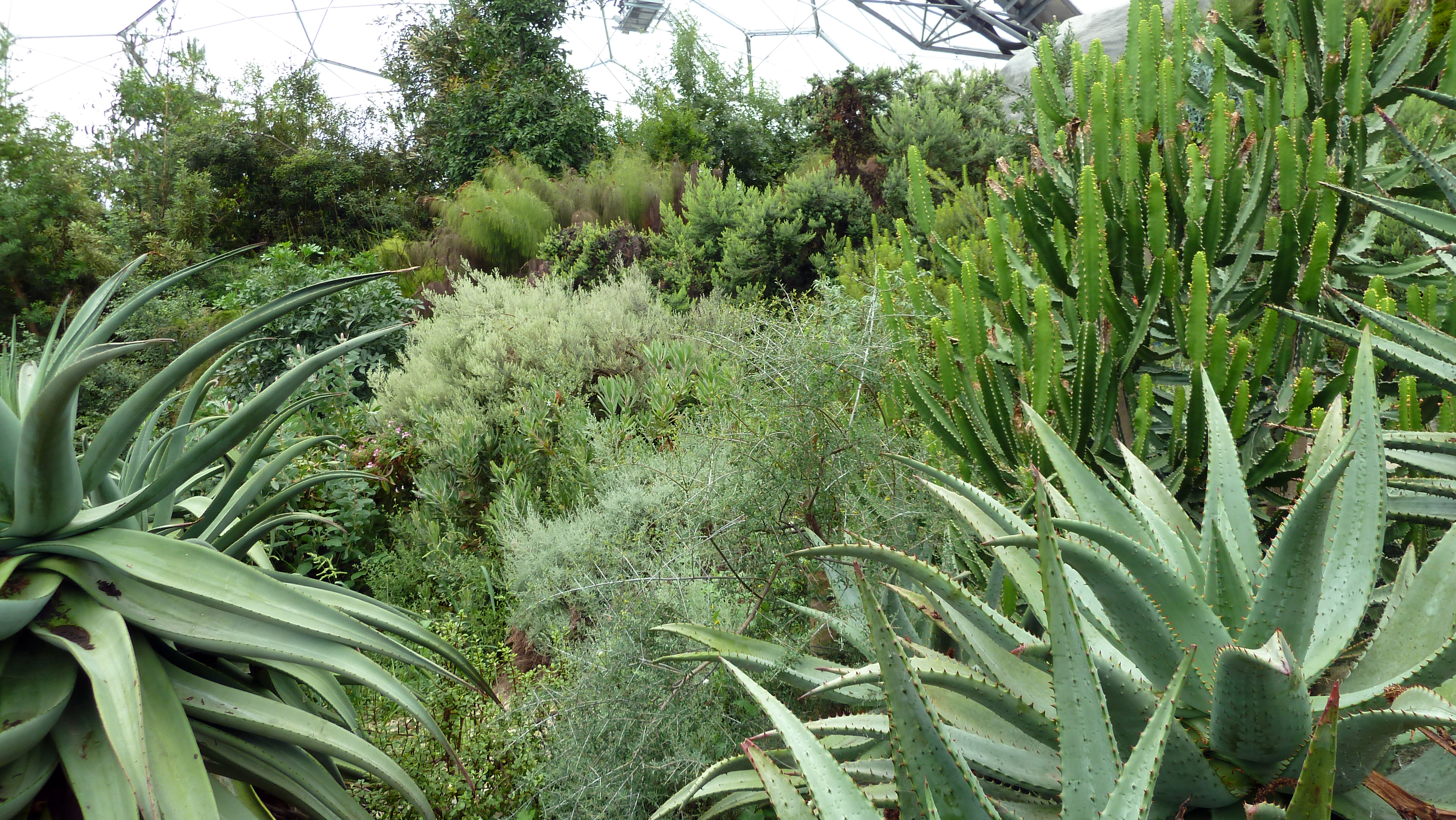 Mediterranean Biome @ Eden Project